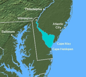 Map of Delaware Bay. © 2004 Matthew Trump